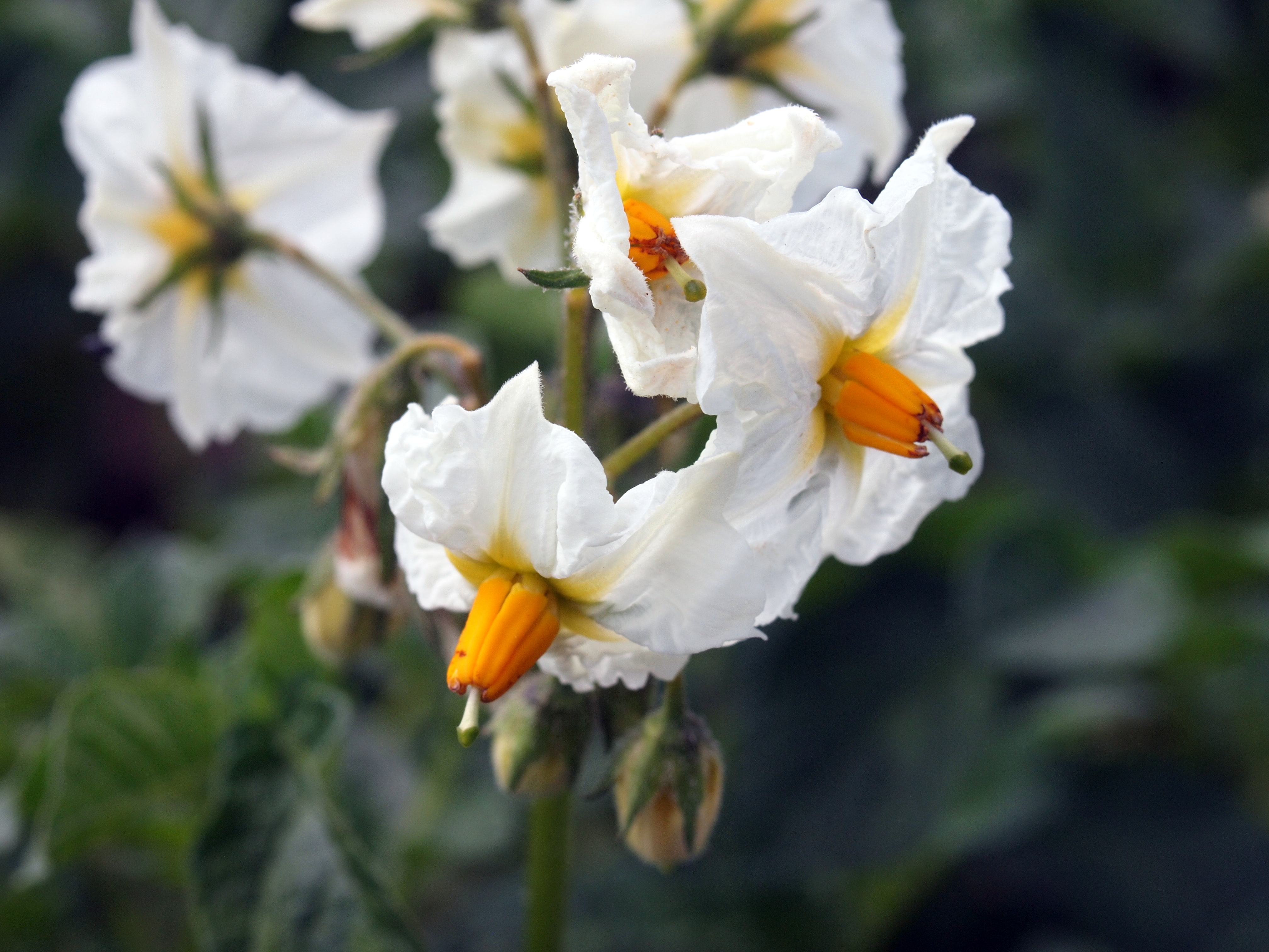 This potato-picture was taken by Ordercrazy with permission of Christian Müller from Aletshofen, municipality of Ettringen, Germany.